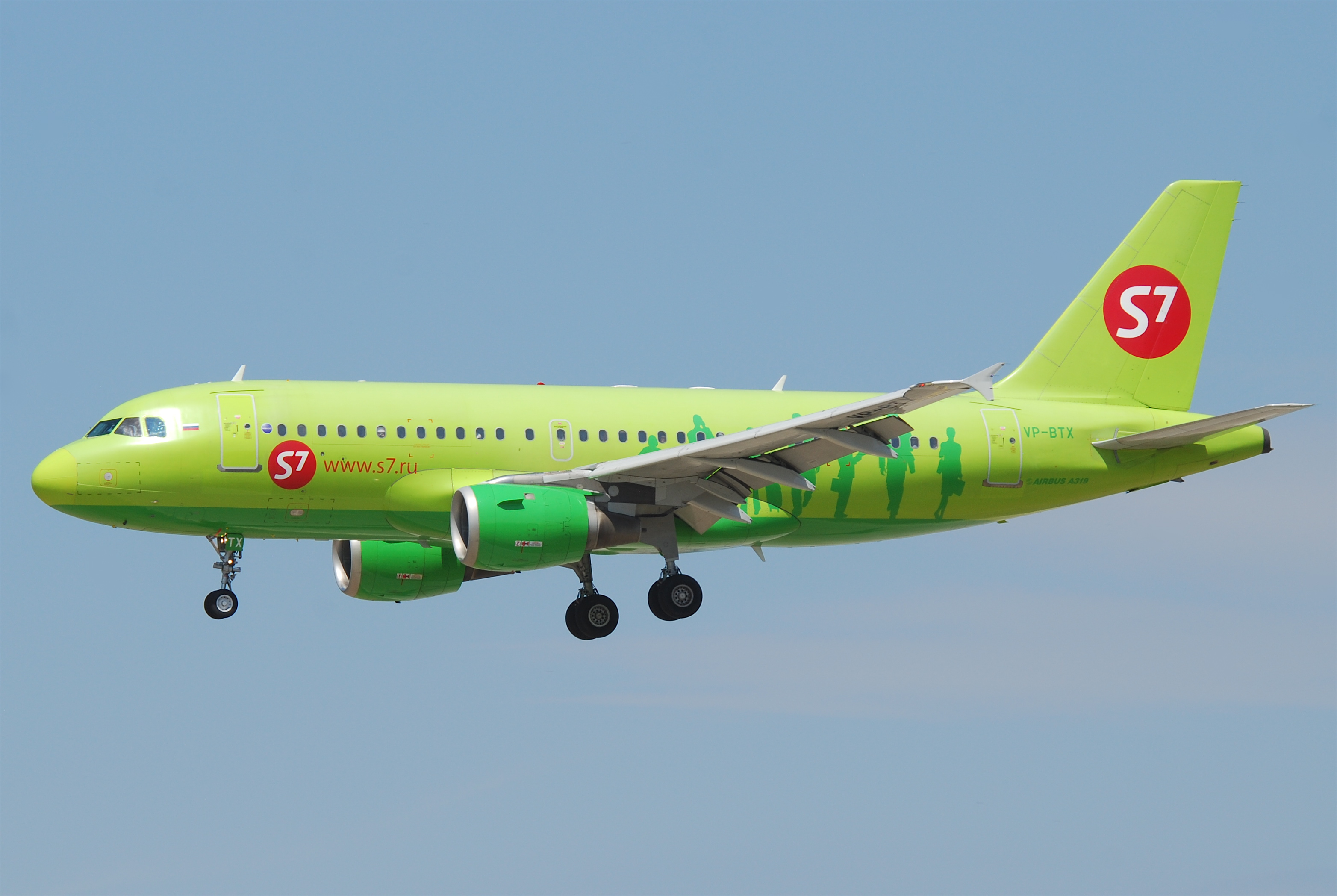 S7 Airlines Airbus A319-114; VP-BTX@FRA;16.07.2011/609he